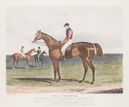 British racehorse The Colonel c. 1828. By Richard Gilson Reeve (1803-1889). Painter dead for 124 years